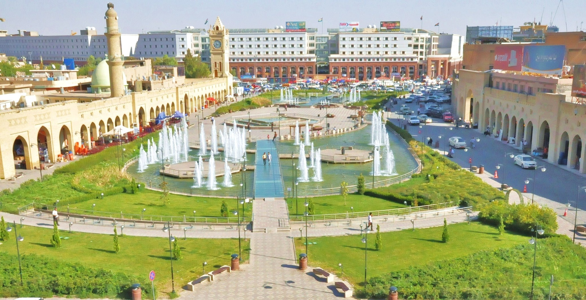 Arbil (Hewlêr) capital of Kurdistan